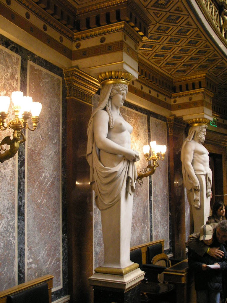 Austria, Vienna, Austrian Parliament Building